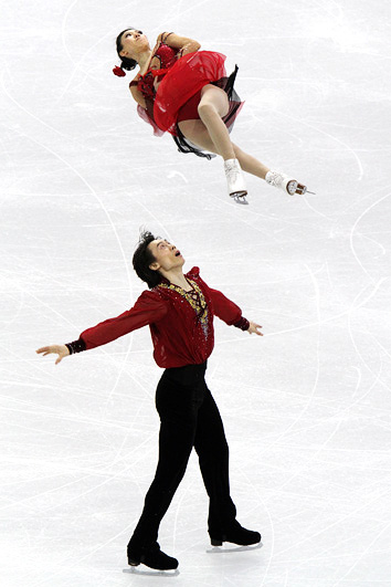 Tong Jian and Pang Qing at the 2010 Winter Olympics (LP).